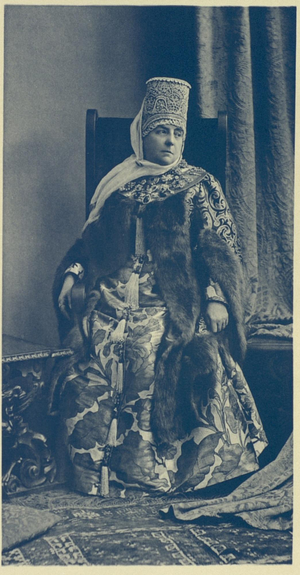 Elizabeth Andreevna, Countess Vorontsov-Dashkov